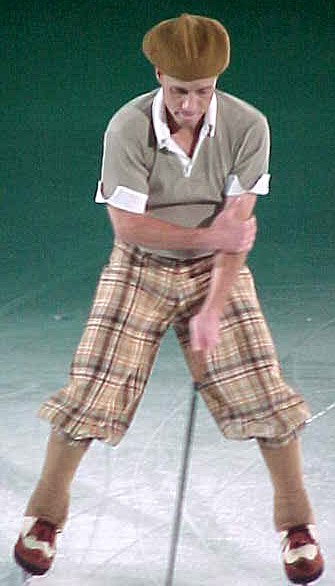 Photo taken by NightThree on April 4, 2002.Scott Hamilton performs during a Stars on Ice show in Portland, Maine.